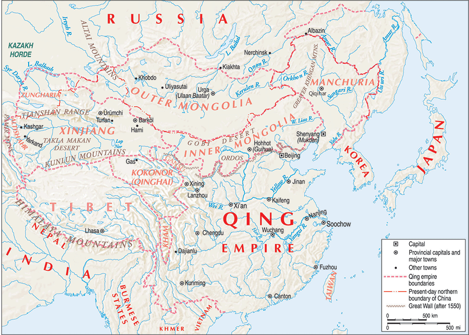 Great Qing